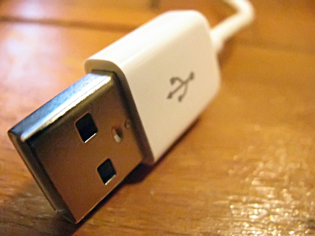 A USB connector from the iPod Shuffle's dock.